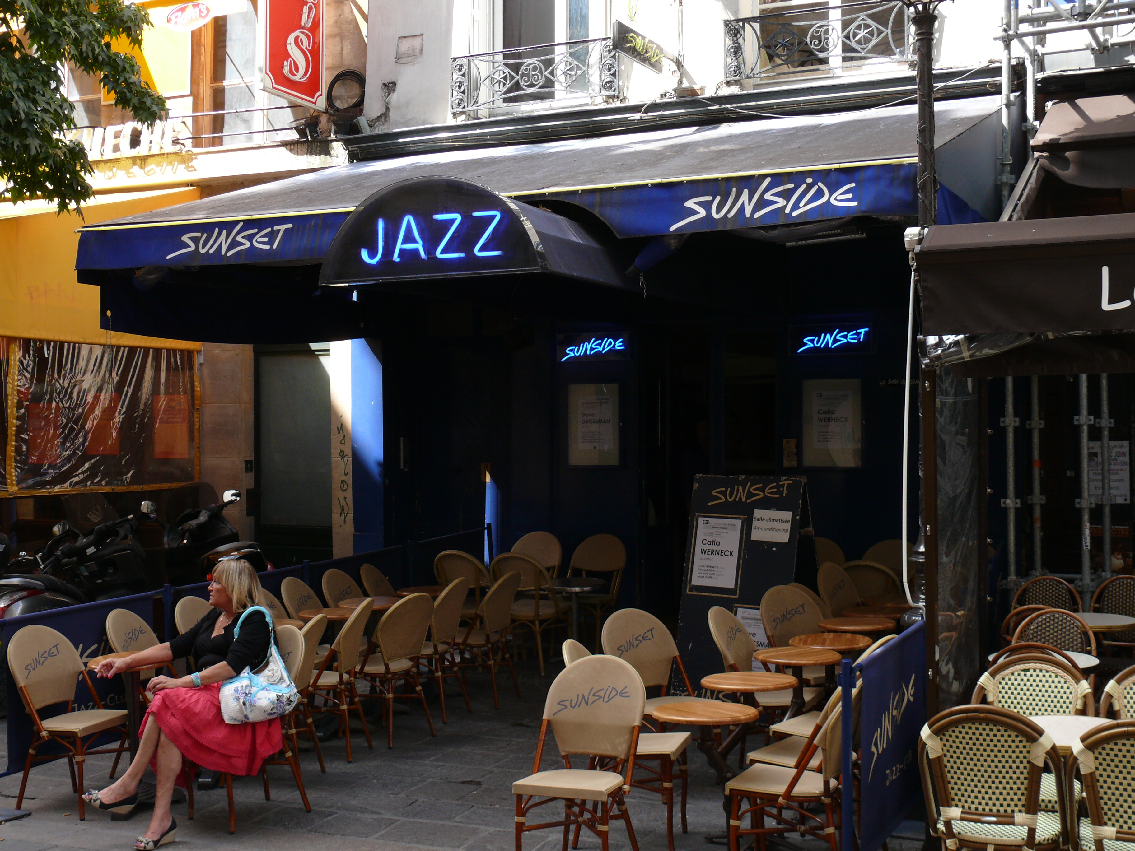 Jazz-club Sunset-Sunside, street rue des Lombards in Paris.